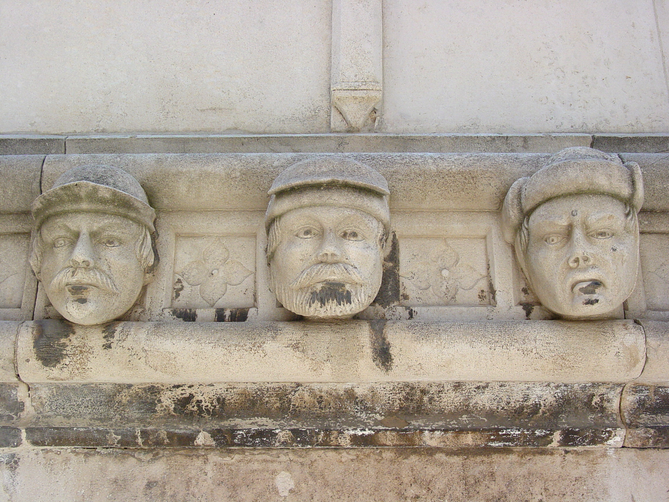 Three of the 71 heads carved in the 15th century by Juraj Dalmatinac to adorn the exterior of the Cathedral of St. James, Sibenik, Croatia. June 2004.